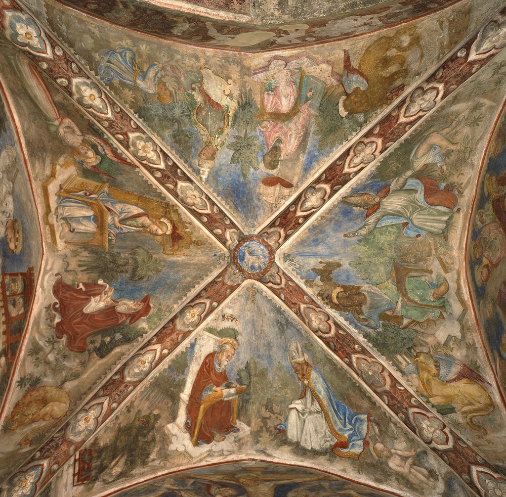 Bonifacio e Benedetto Bembo. Storie sacre, La volta, XV d.C. Cappella di Corte, Rocca di Monticelli d'Ongina.